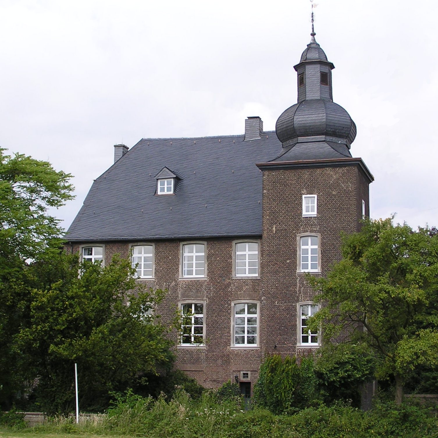 Haus Wohnung in Voerde, Germany - unpicturesque smokestacks in the background were deleted with GIMP